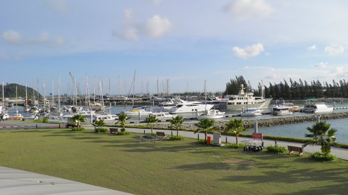 Pangkor Marina Malaysia